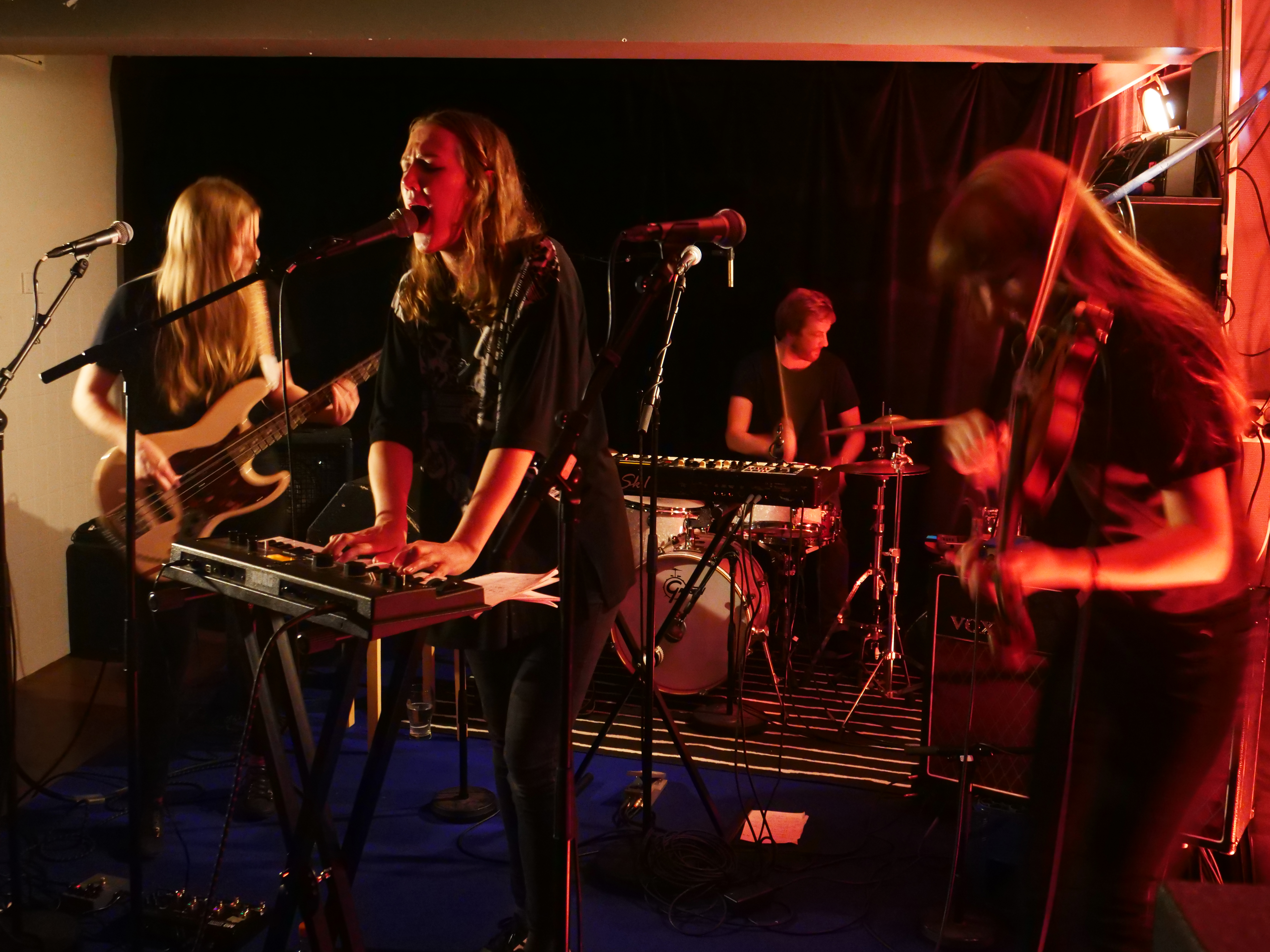 Norwegian folk rock group Folkehelsa playing at MIR in Oslo 31st of August 2019.